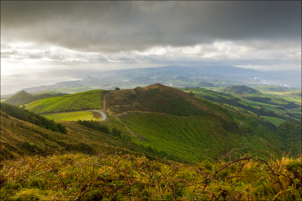 View to the west part of São Miguel island (Azores)